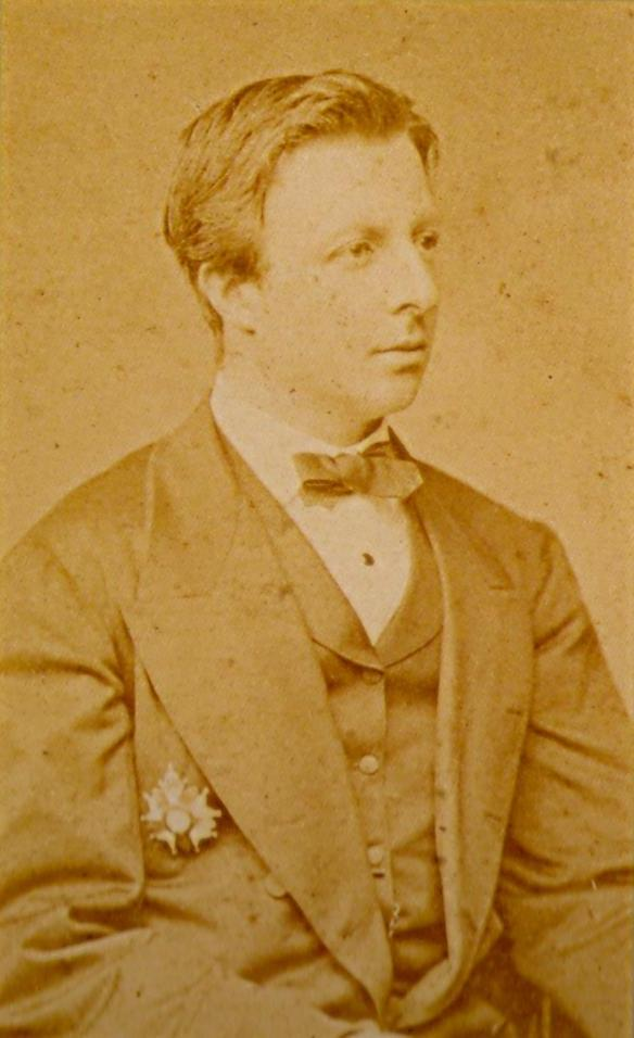 Gaston d´Orleans, comte d´Eu, husband of Isabella, Princess Imperial of Brazil in Rio de Janeiro, 1865.